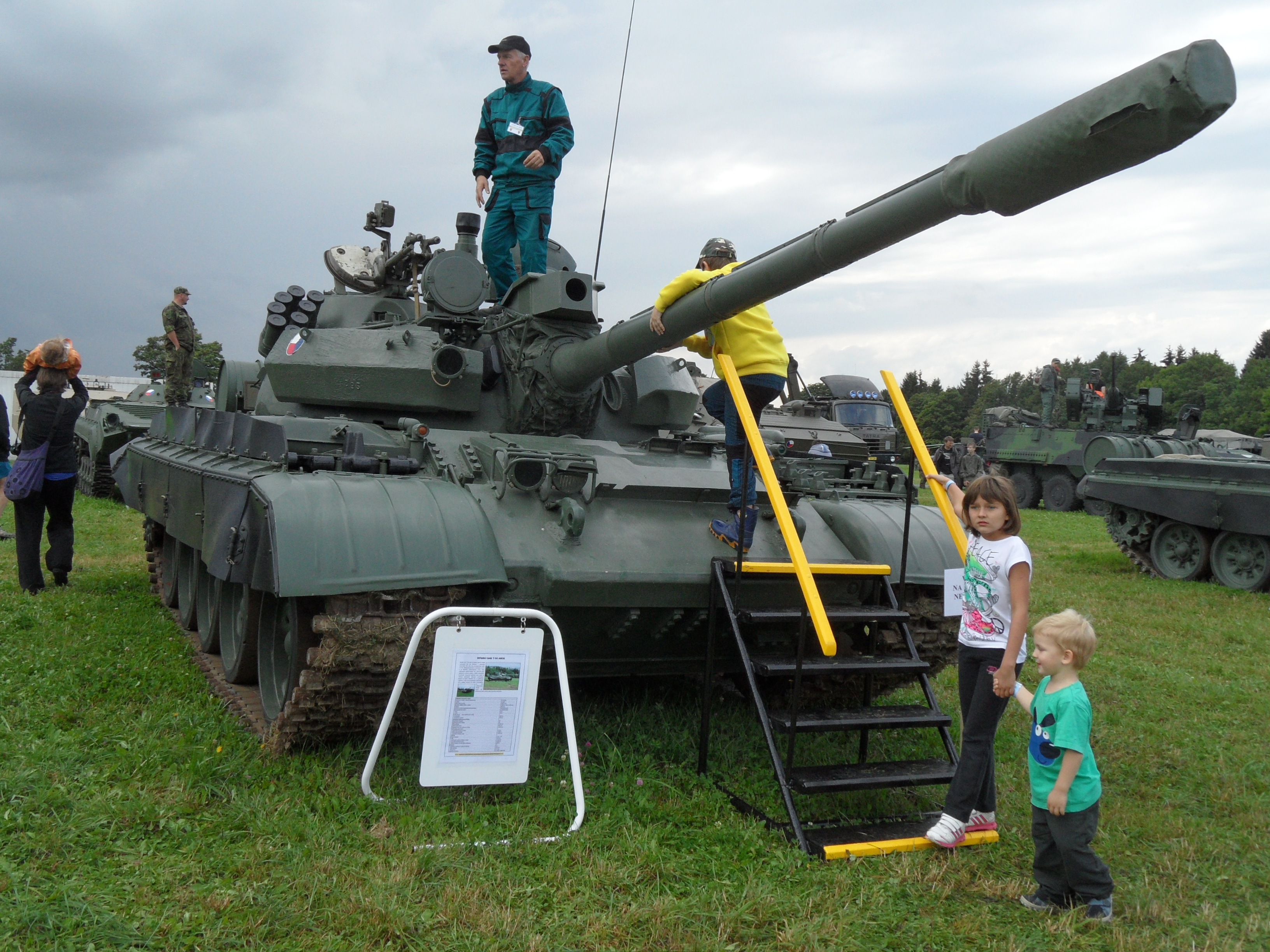 Akce Cihelna 2014 H11. Static Presentations: Tank T-54AM2K, Králíky, Ústí nad Orlicí District, the Czech Republic.